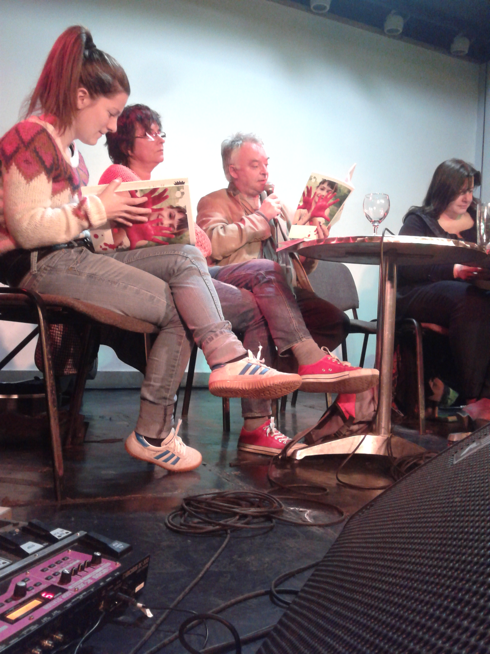 The Music-Literary event of the International Romani Day - 2015, Budapest, Hungary: Presentation of the "CIgányút" anthology at G3 Center, Gödör Klub.